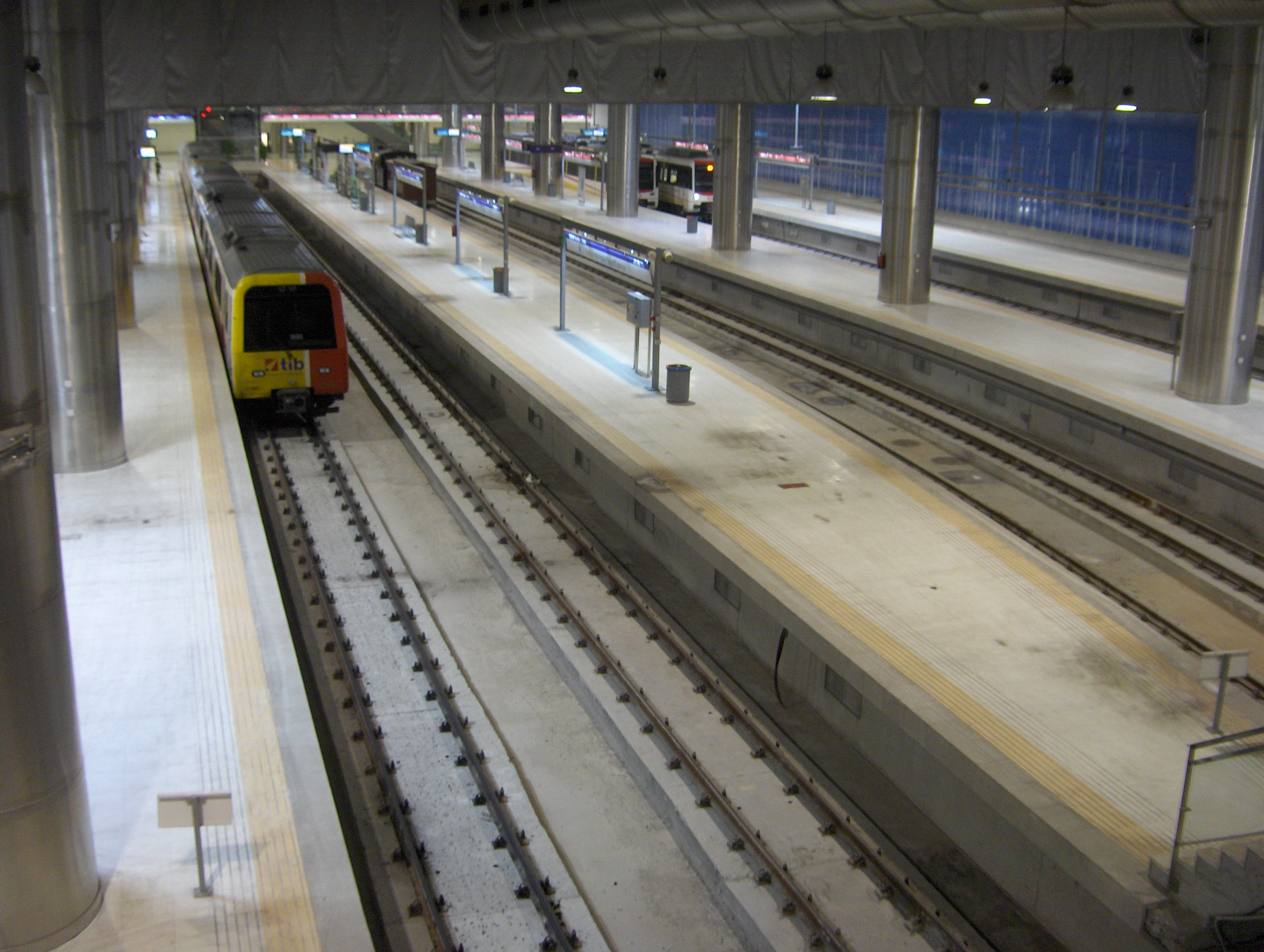 Plattforms at the SFM station in Palma de Mallorca